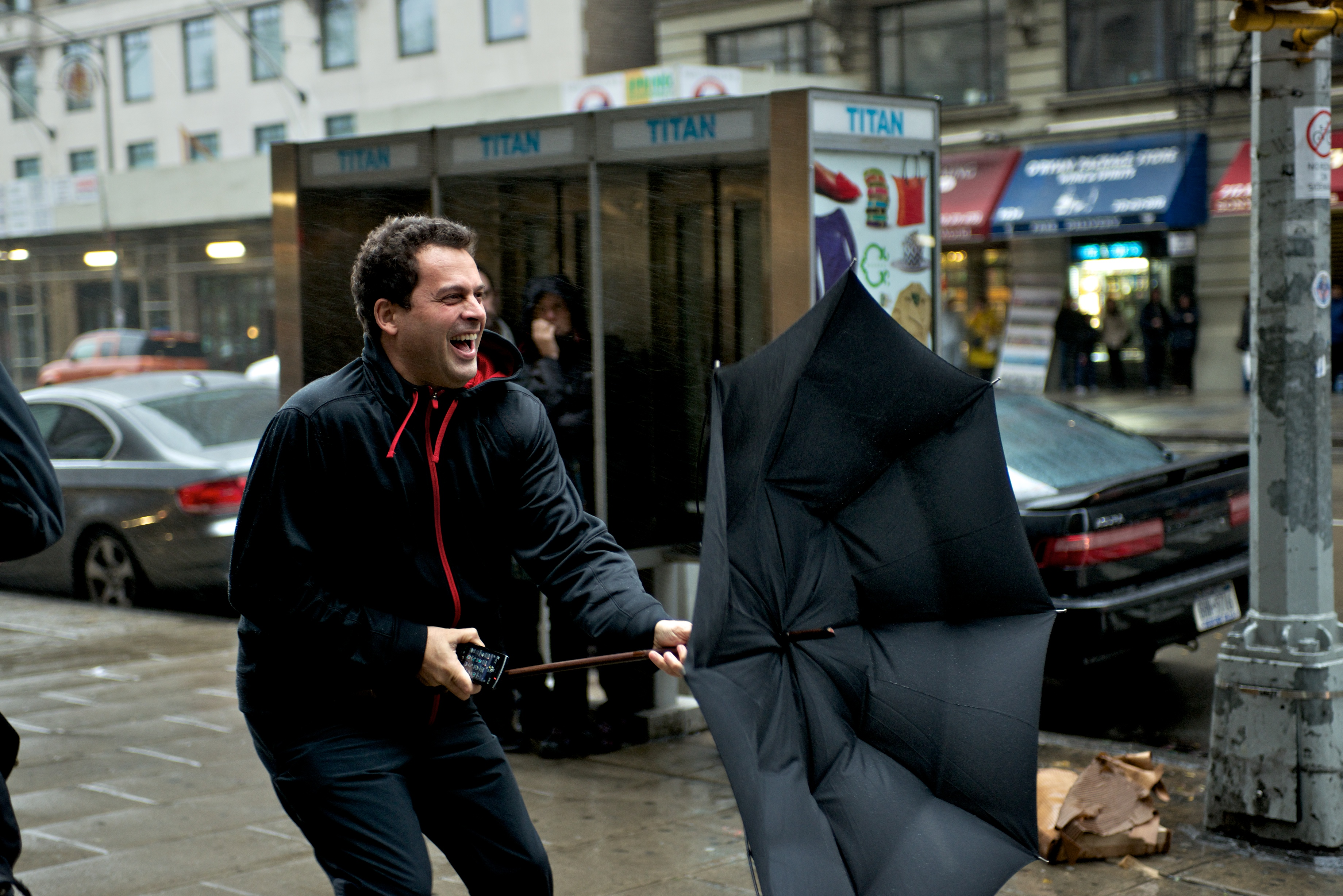 Hurricane Sandy in New York City shot by Jordan Balderas October 29, 2012